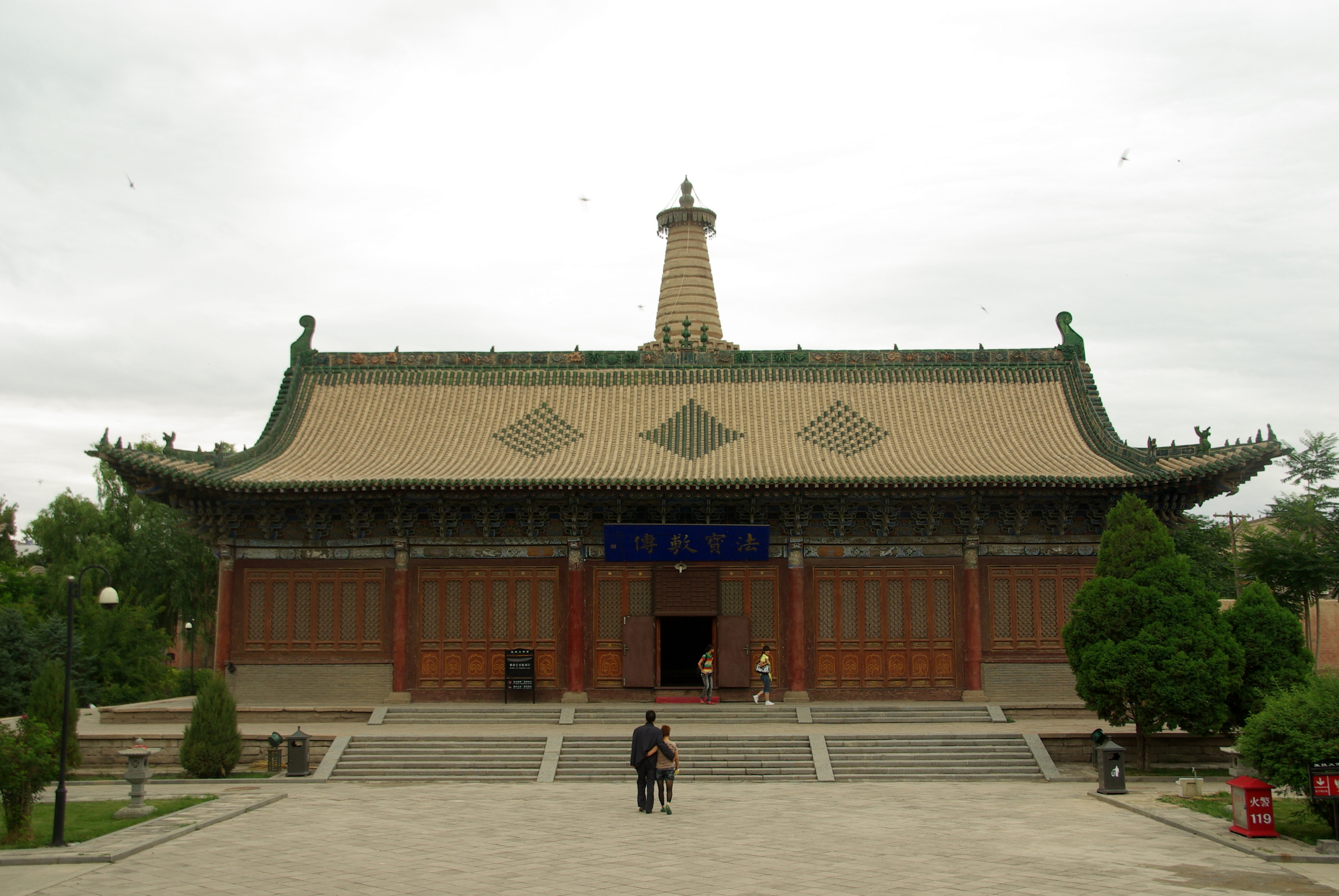 This hall contains the largest reclining Bhudda made from wood. Behind it is a Tibetan style stupa